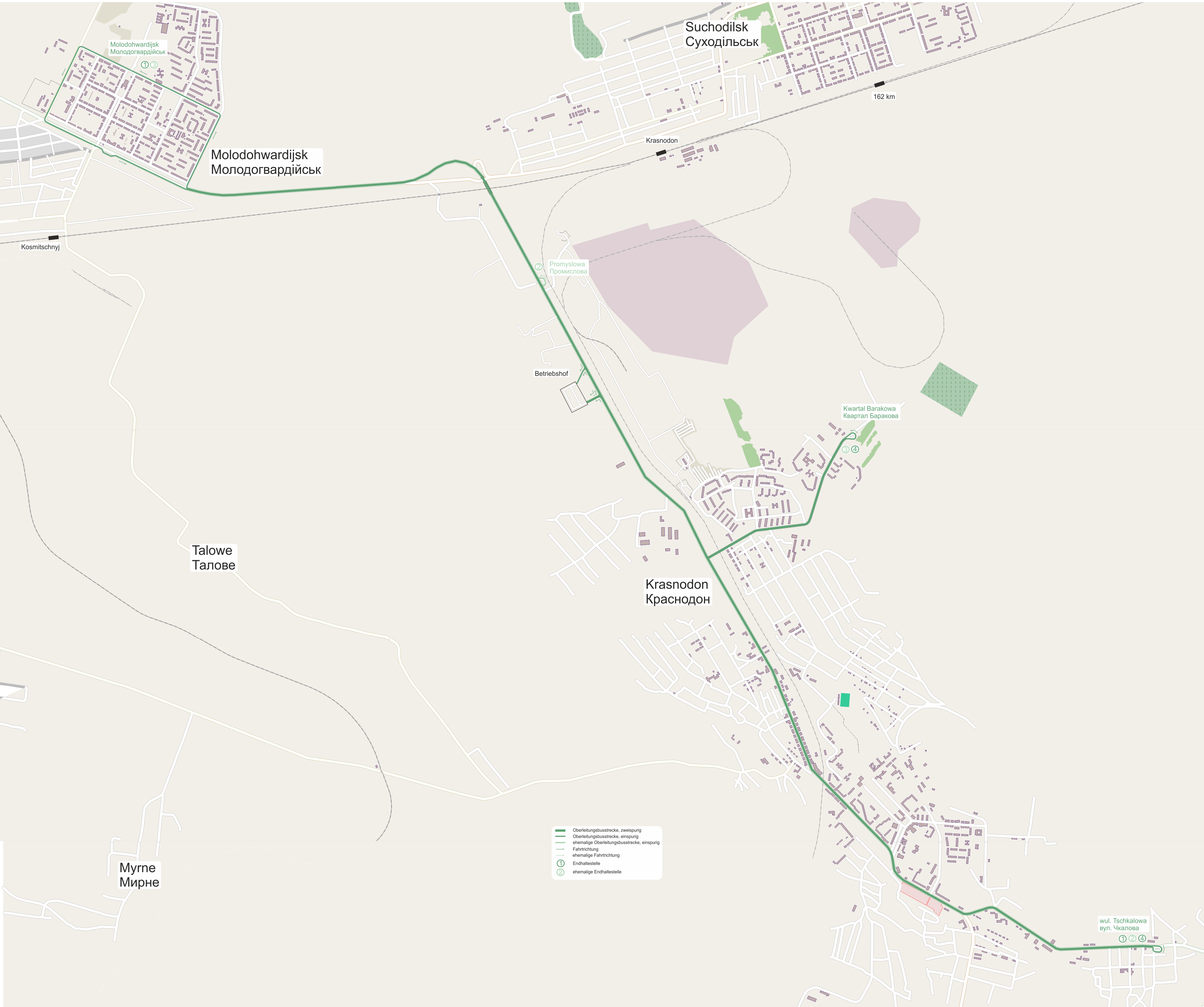 Oberleitungsbus Krasnodon This map may be incomplete, and may contain errors. Don't rely solely on it for navigation.